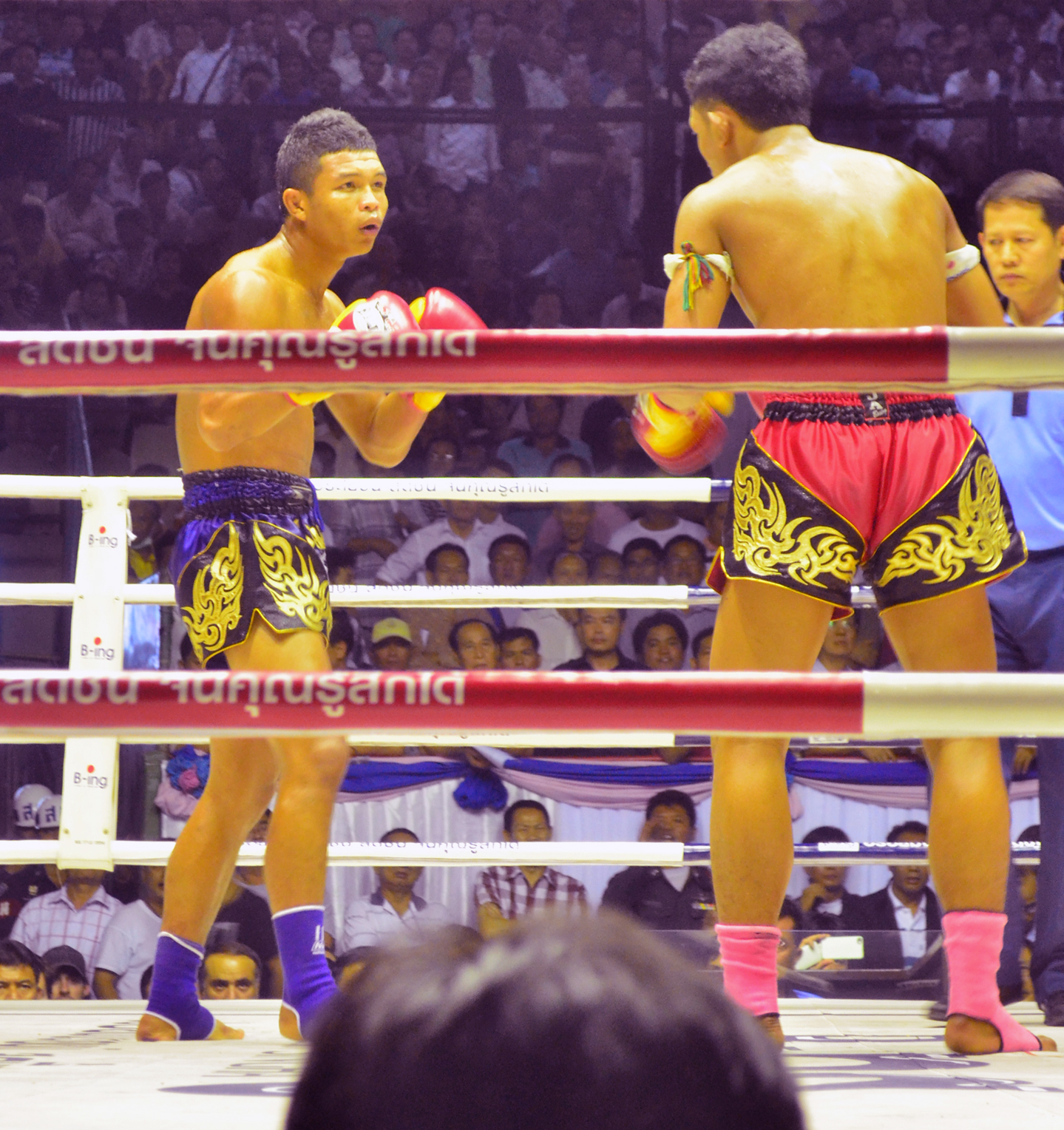 Kongpet Lukboonmee